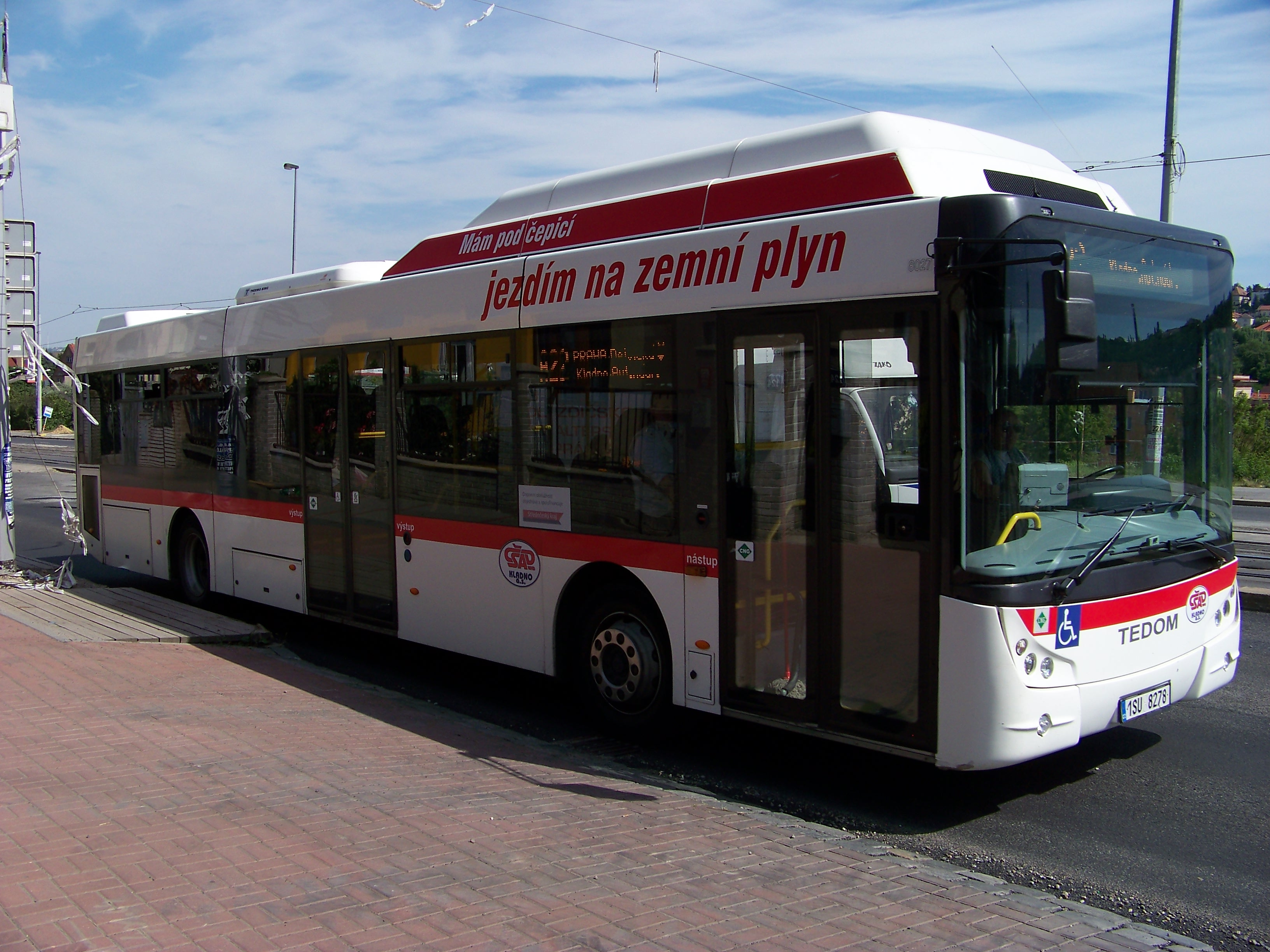 Prague-Dejvice, the Czech Republic. Evropská street, a bus Tedom L12G of ČSAD MHD Kladno. - OpenStreetMap(Info)